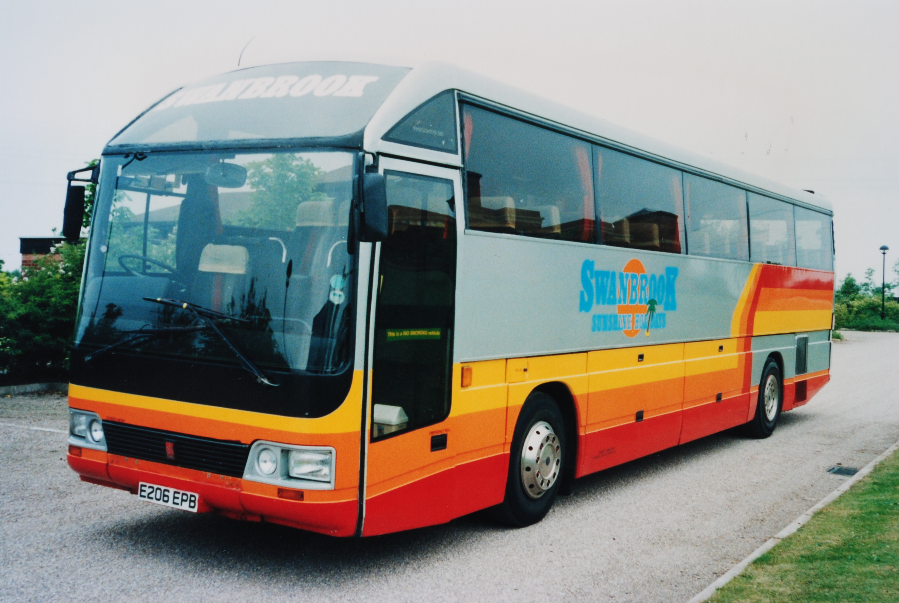 Swanbrook of Staverton operated a large number of Duple 425 integrals. E206 EPB is one of three ex. Reading examples. this one is seen parked at Heart of England Building Society HQ at Leamington Spa. I was driving it this day and to be honest 425's did nothing for me.